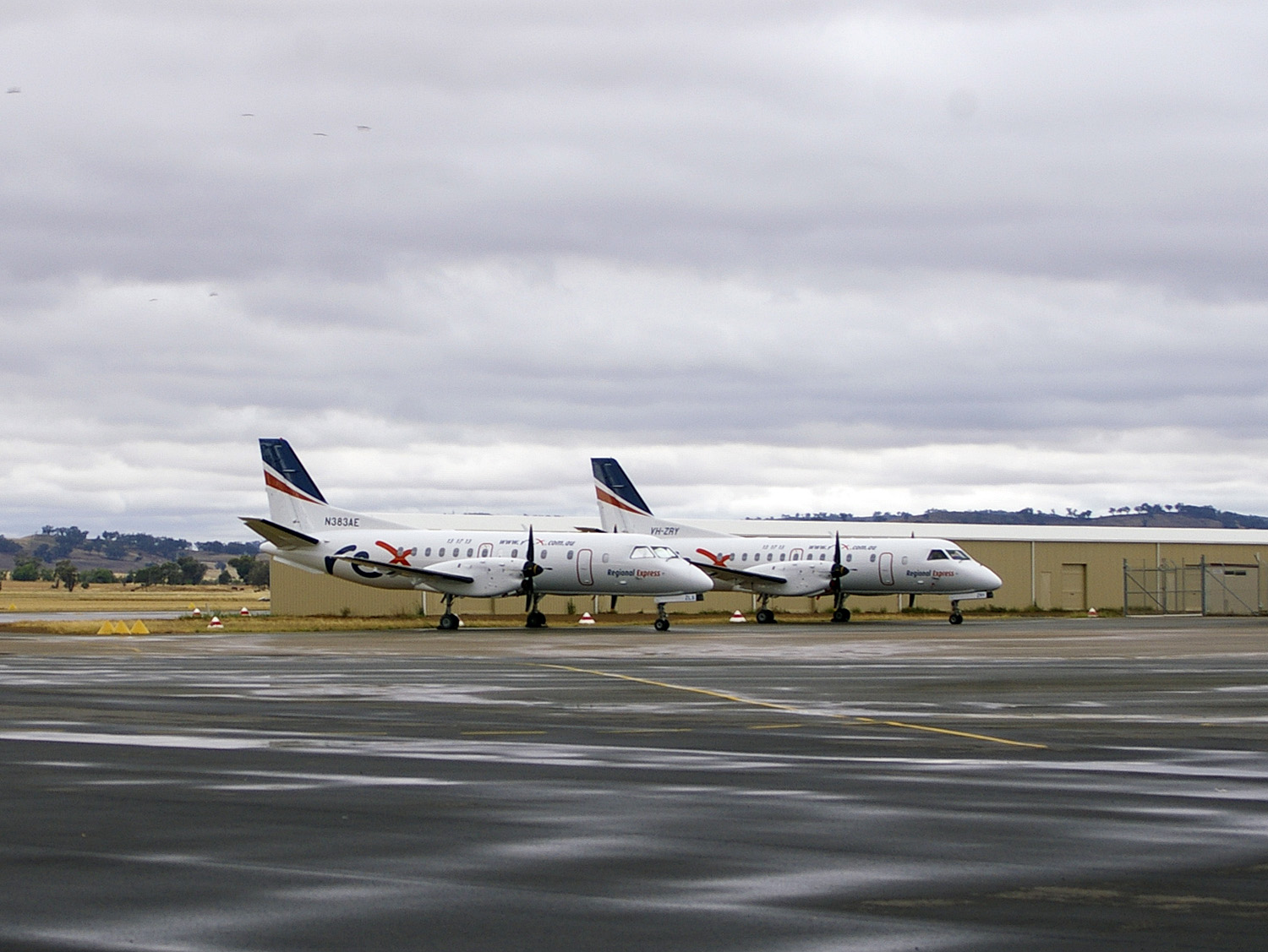 Regional Express Airlines N383AE (Now VH-ZLS) and VH-ZRY (Was N90IAE) Saab 340B Plus (Former American Eagle Airlines aircraft) located at Wagga Wagga Airport.